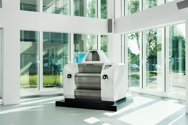 Roller Mill MDDR "Antares", Company Buhler AG, Uzwil, Switzerland